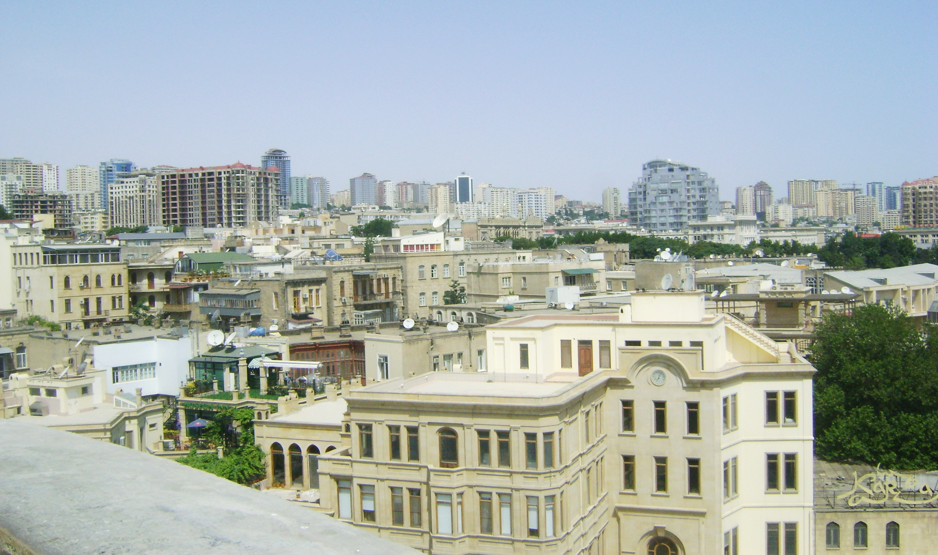 maiden_towers_top_old_city_baku_azerbaijan - 12th century - view of Old City from the Maiden's tower